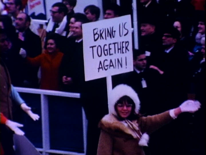 Still frame ripped at 21:48 from "1969 Nixon Presidential Inaugural Parade", a joint production of The Senate Recording Studio & Naval Photographic Center ARC Identifier 37454/Local Identifier 128 NWCS records Joint Congressional Committee on Inaugural Ceremonies credit: The above information, and the source: Richard Nixon Presidential Library and Museum